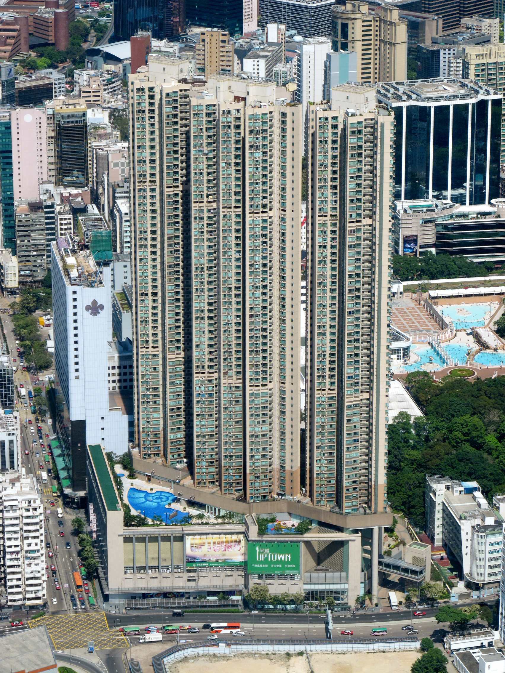 Victoria Tower